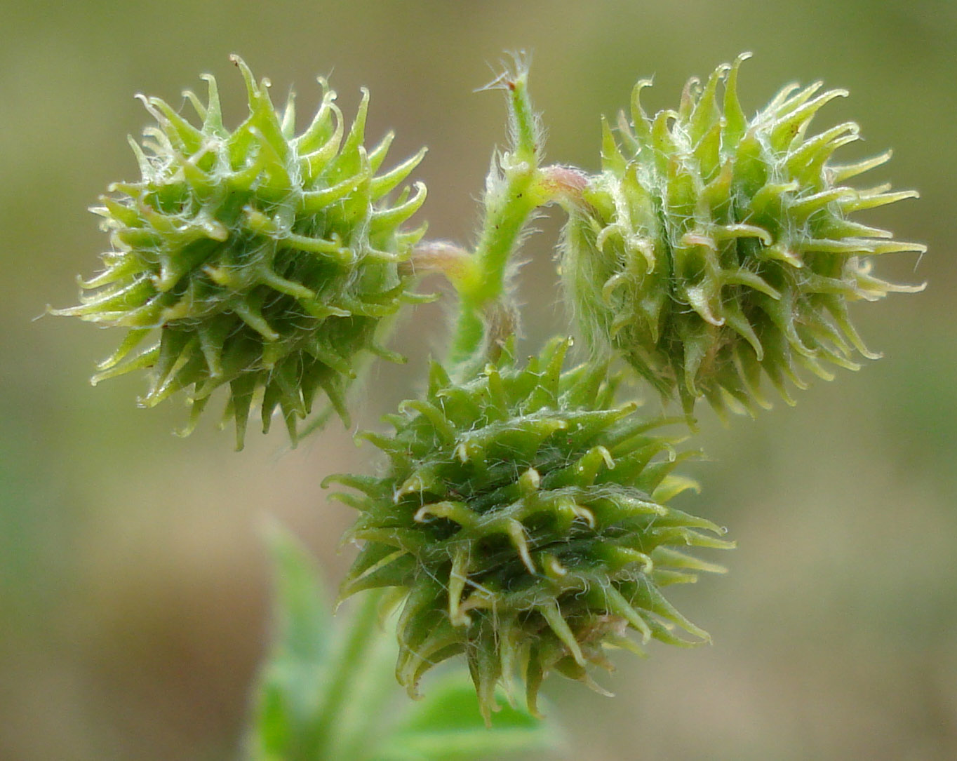 Medicago minima (fruits)(Unterfranken, Germany)